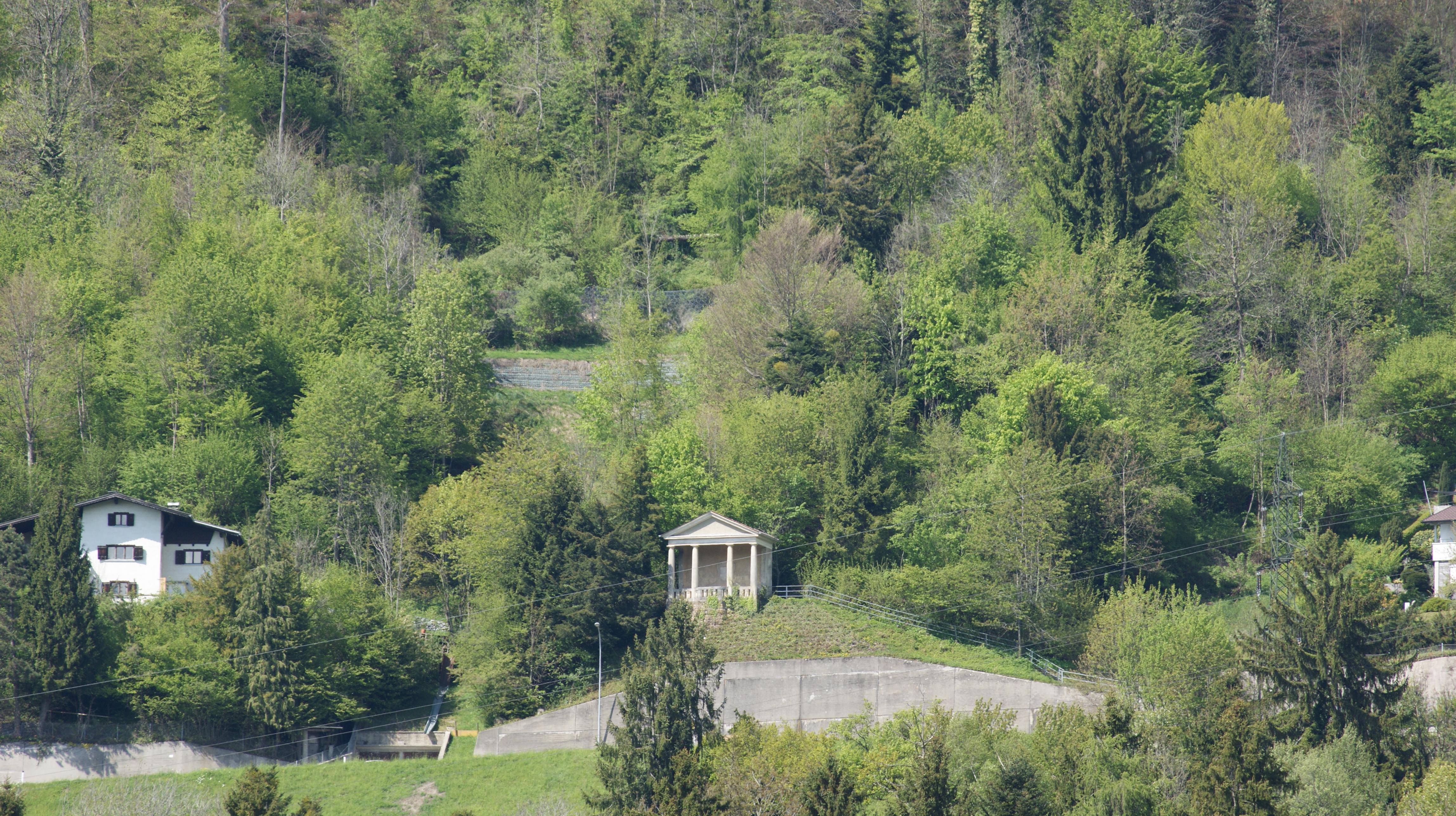 Gazebo "Kosmus-Jenny-Ruhe" according to a plan by Otto Mallaun. Built in 1909. The gazebo (lookout) owes the origin of a donation by the entrepreneurs and brothers Fritz and Kosmus Schindler on the occasion of the death of their uncle Kosmus. *** View from the former station of the "Bregenzerwaldbahn" (Railway) in Kennelbach in Vorarlberg (Austria).